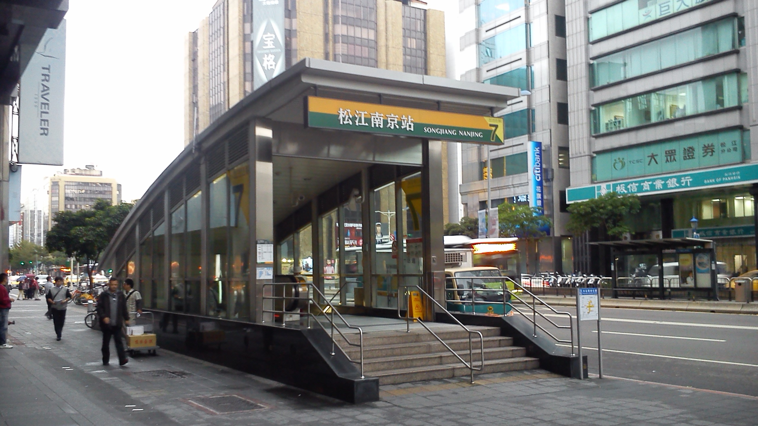 Taipei Metro Songjiang Nanjing Station Exit 7 and Taiwan Life Nanging Building